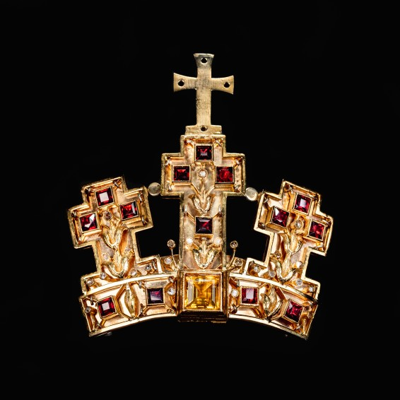 A Crown made of gold fashioned from the Pectoral Cross of the late Rufino Cardinal Santos, Archbishop of Manila given as an ex voto